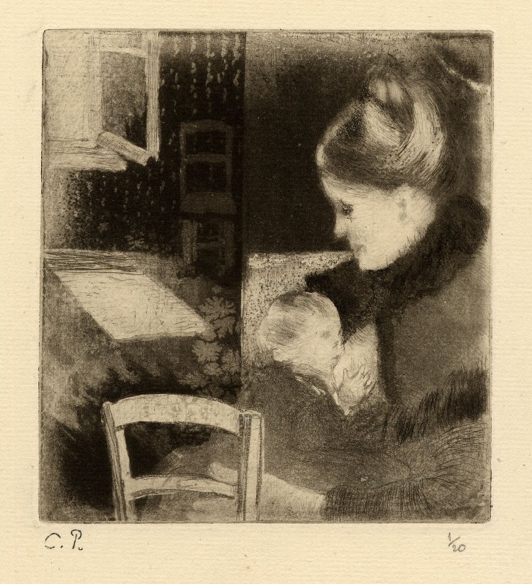 "Enfant tétant sa mère," drypoint and aquatint, by the French artist Camille Pissarro. 123 mm x 112 mm. Courtesy of the British Museum, London.